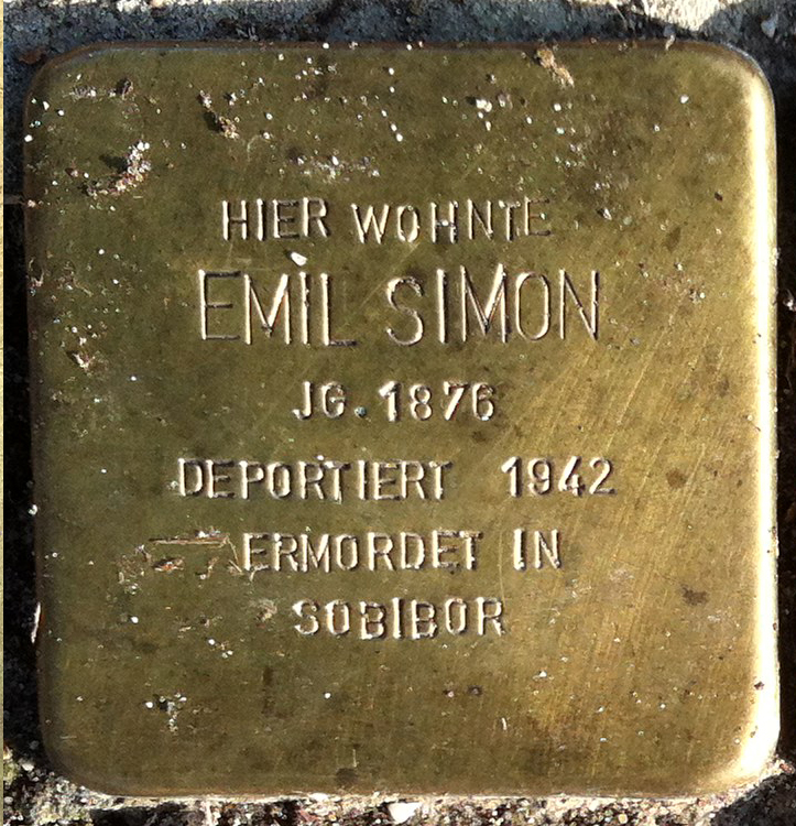 Stolperstein - Stumbling Stone in Nettetal, NRW, Germany Emil Simon